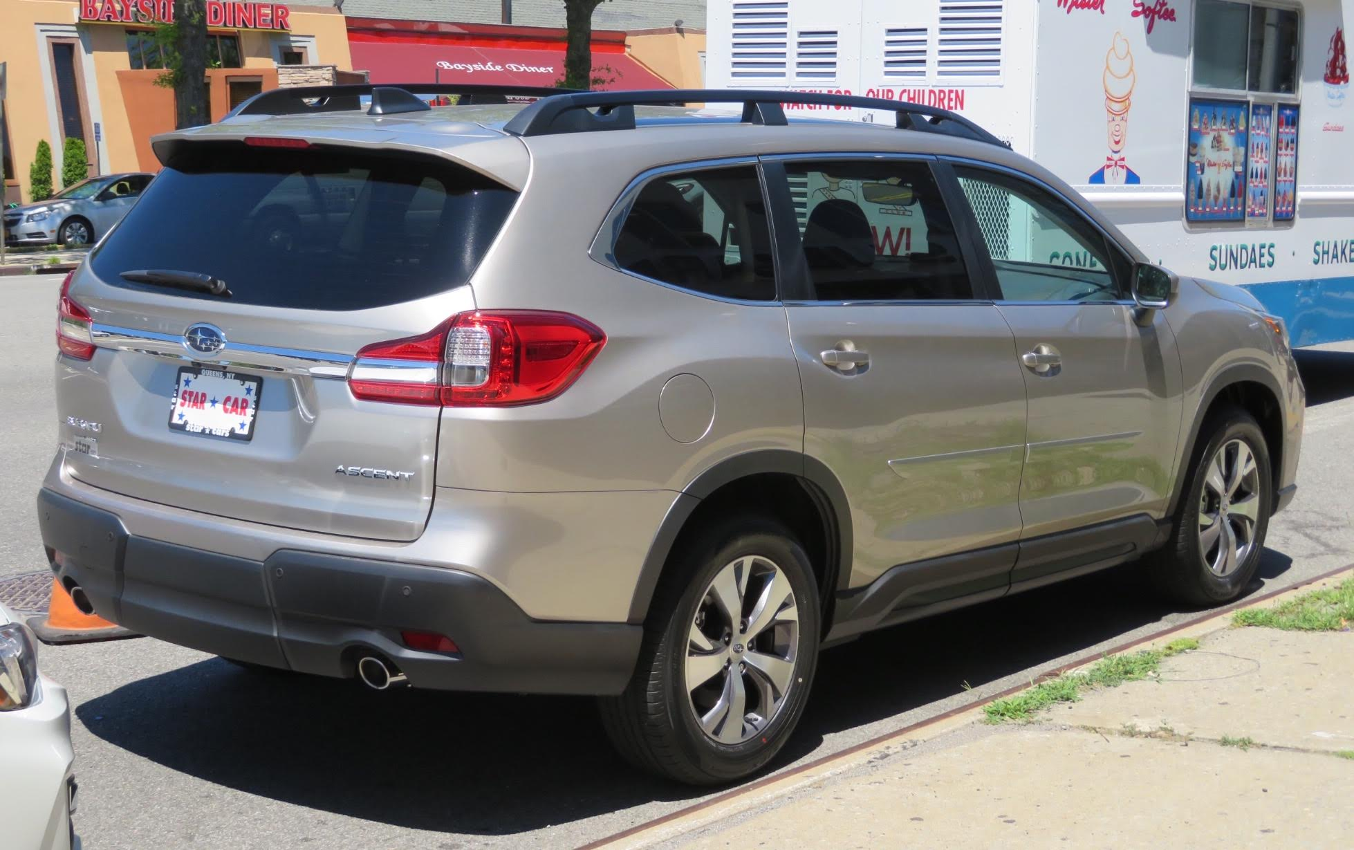 Spotted & photographed in Queens, New York